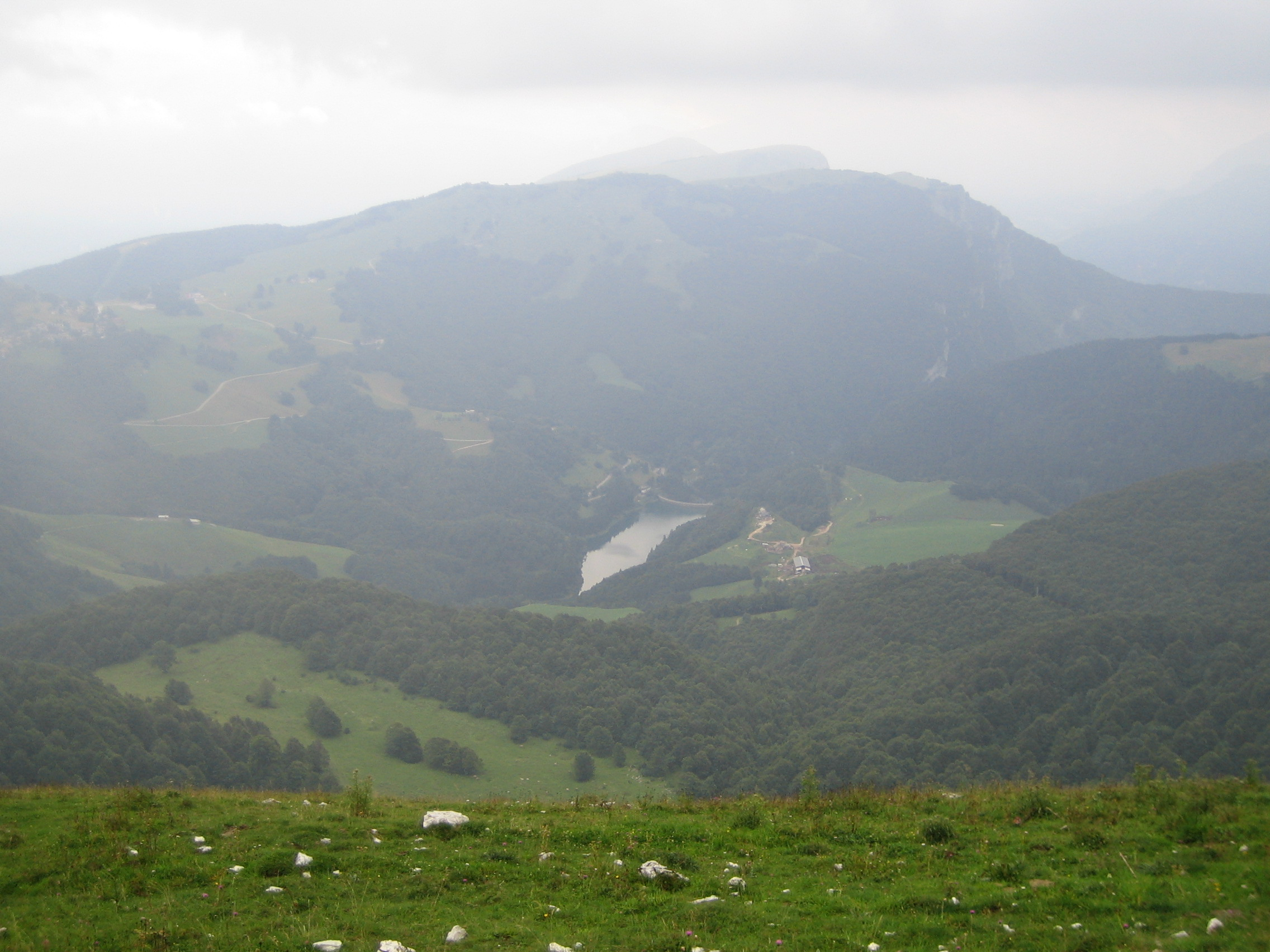 Lago di pra da Stua (barrier lake at Monte Baldo massif)